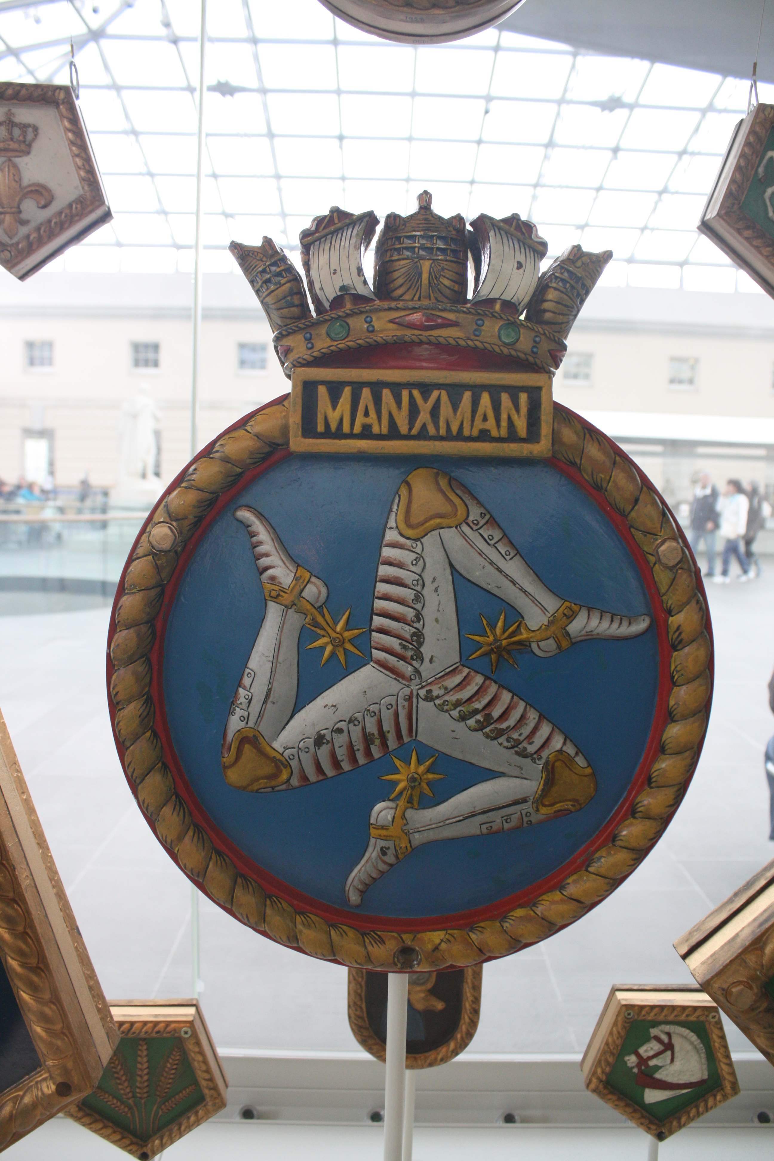 Ship heraldry at the NMM